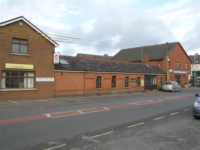 Augher Railway Station Unusually, it is located right at the centre of the village, along Irish Street